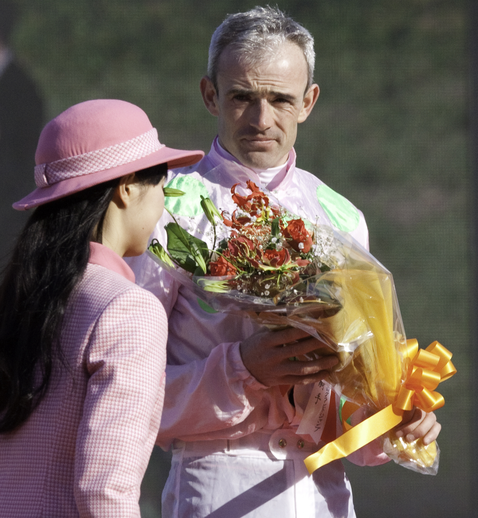 Ruby Wlash 2013Nakayama Grand Jump